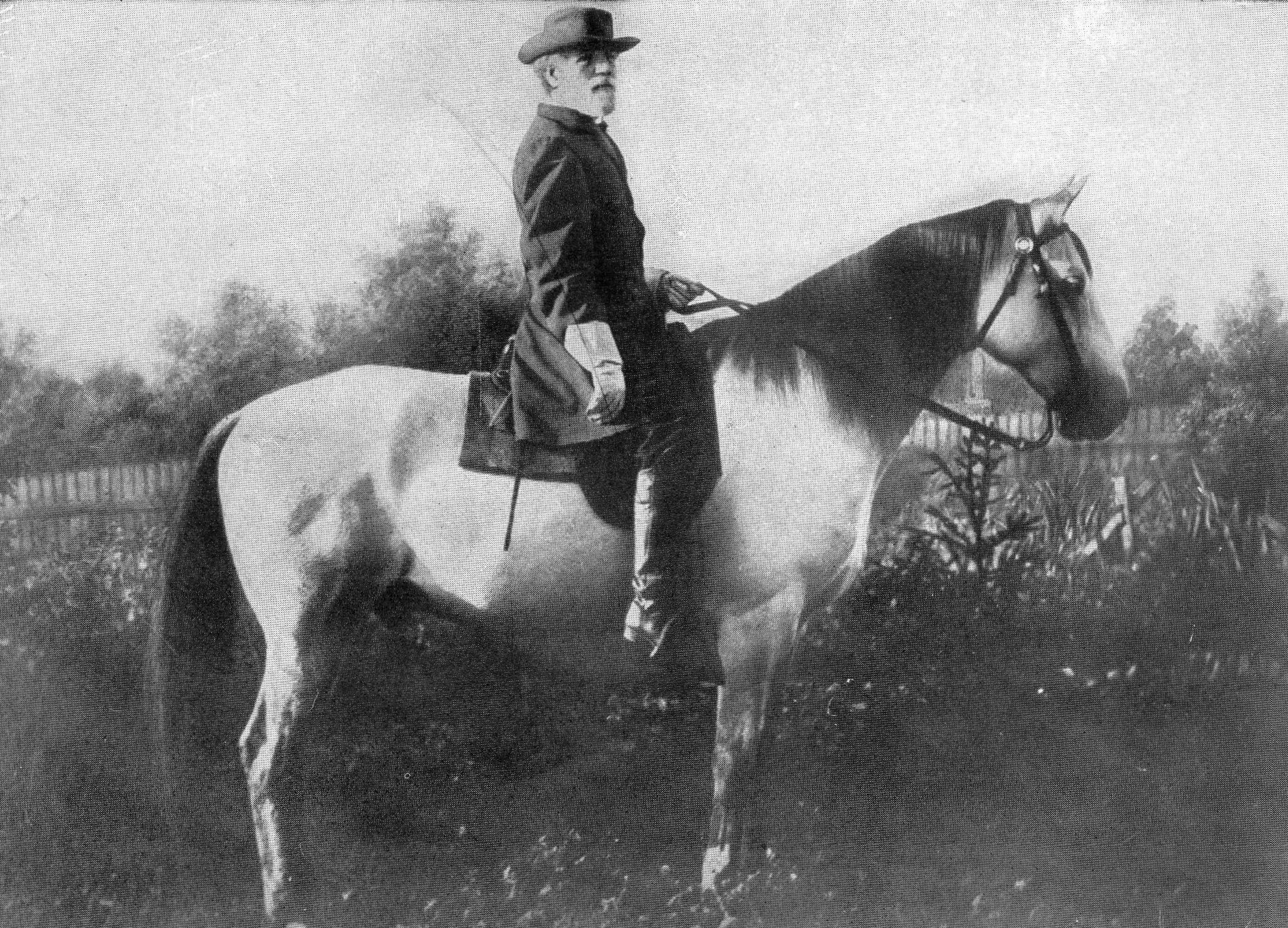 General Robert E. Lee mounted on Traveller, his famous "war horse".